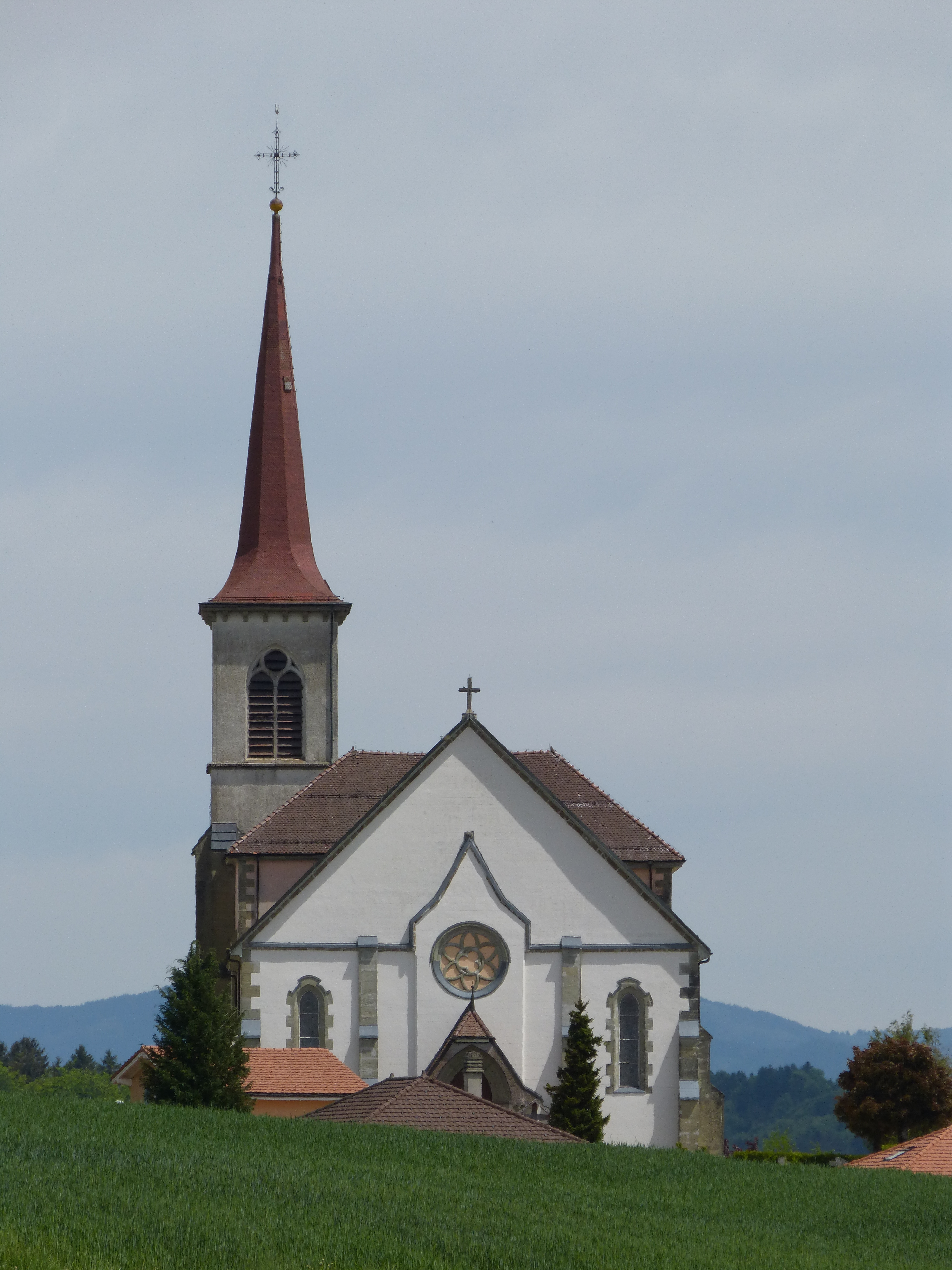 View of the catholic church at Saint-Martin from Chesalles-sur-Oron.